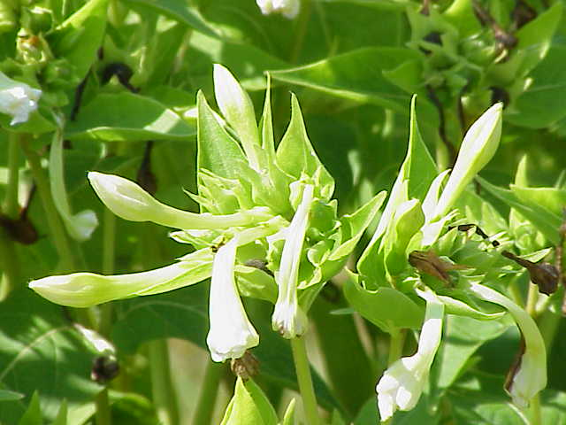 Species: Mirabilis jalapa Family: Nyctaginaceae Image No. 5